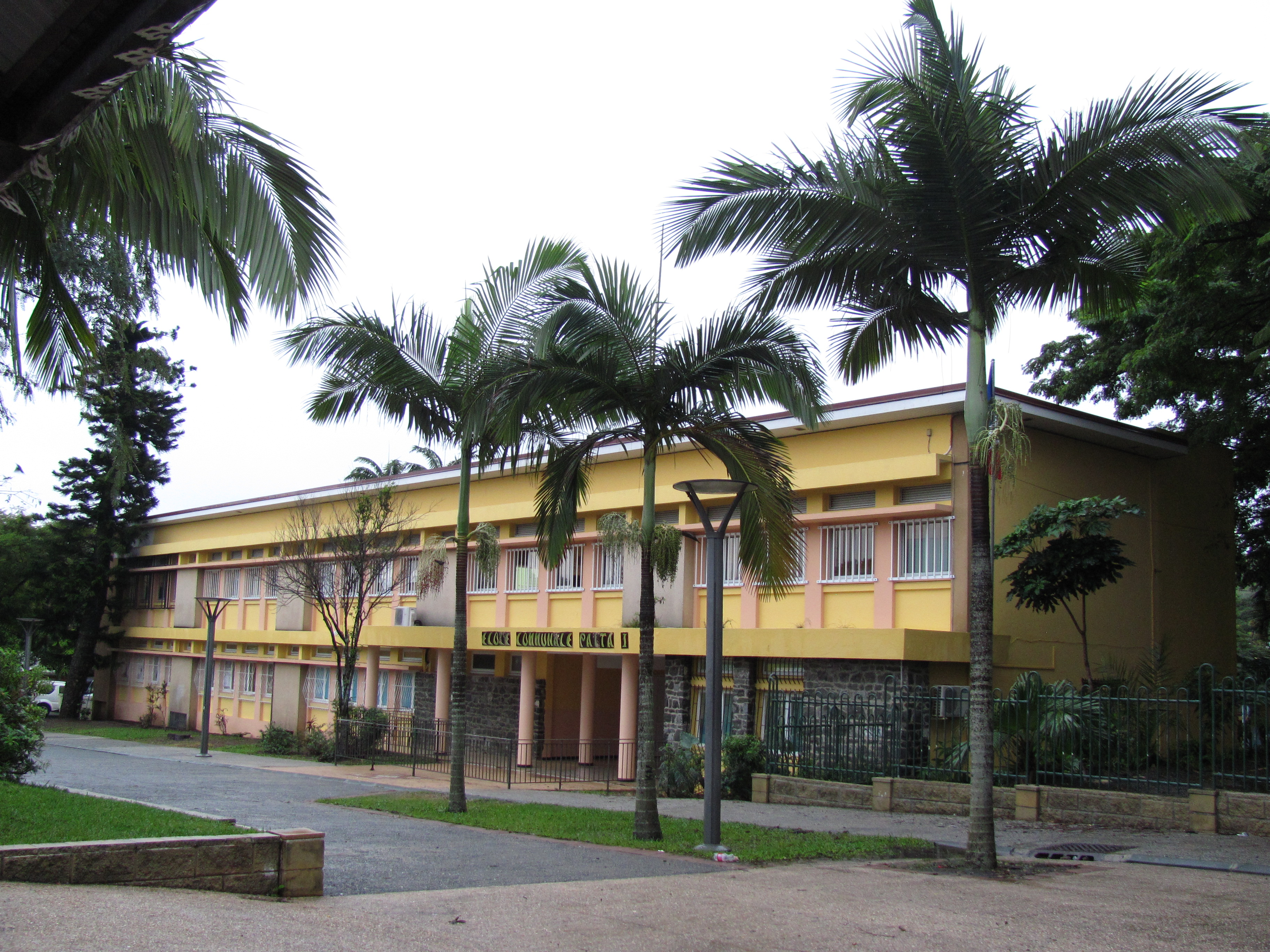 School, Païta, New Caledonia